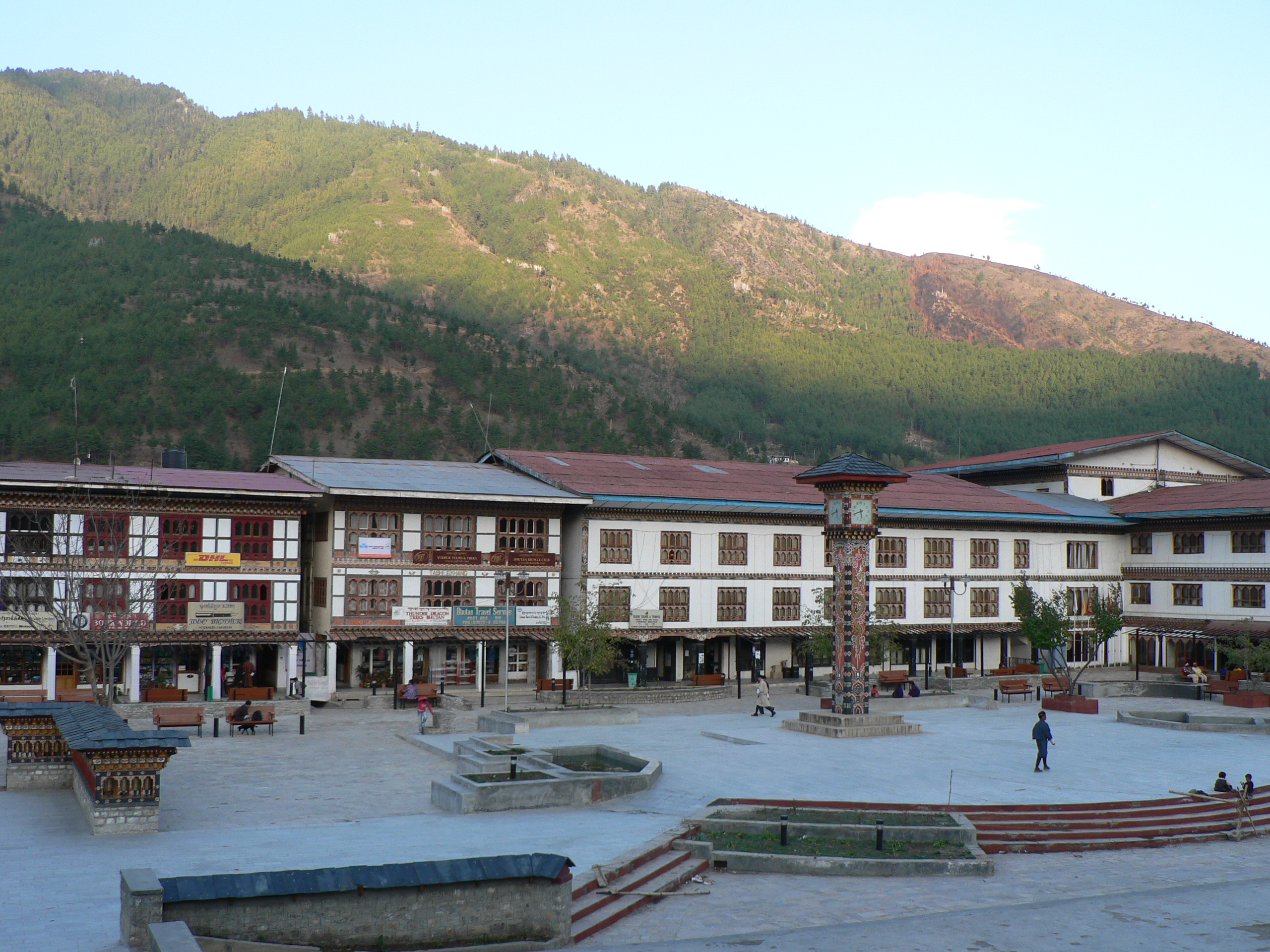 Clock Tower Square, Thimphu, Bhutan (2006)